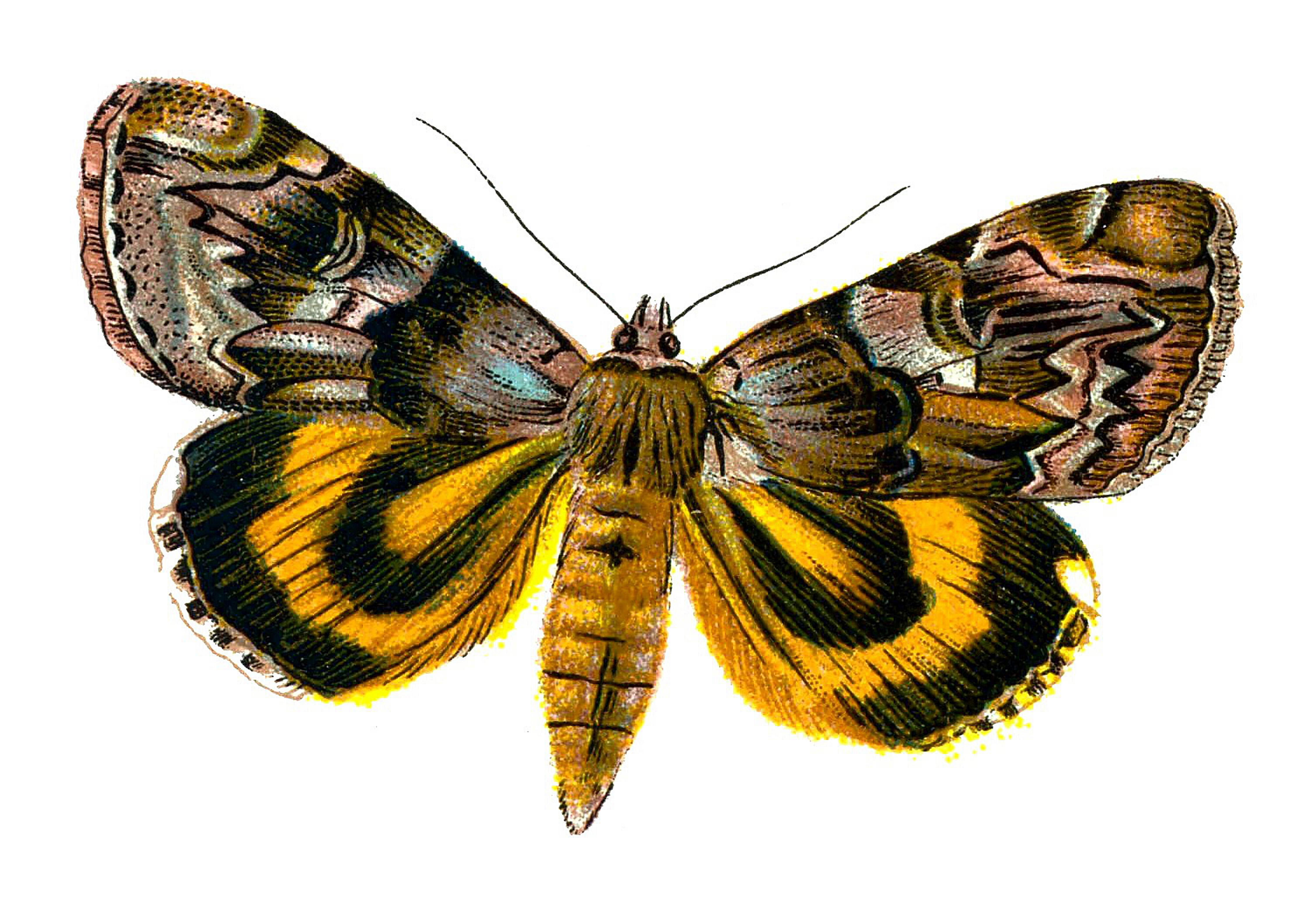 Scanned and archived at where it was marked as public domain from Europas bekannteste Schmetterlinge. Beschreibung der wichtigsten Arten und Anleitung zur Kenntnis und zum Sammeln der Schmetterlinge und Raupen (Berlin, 1895).